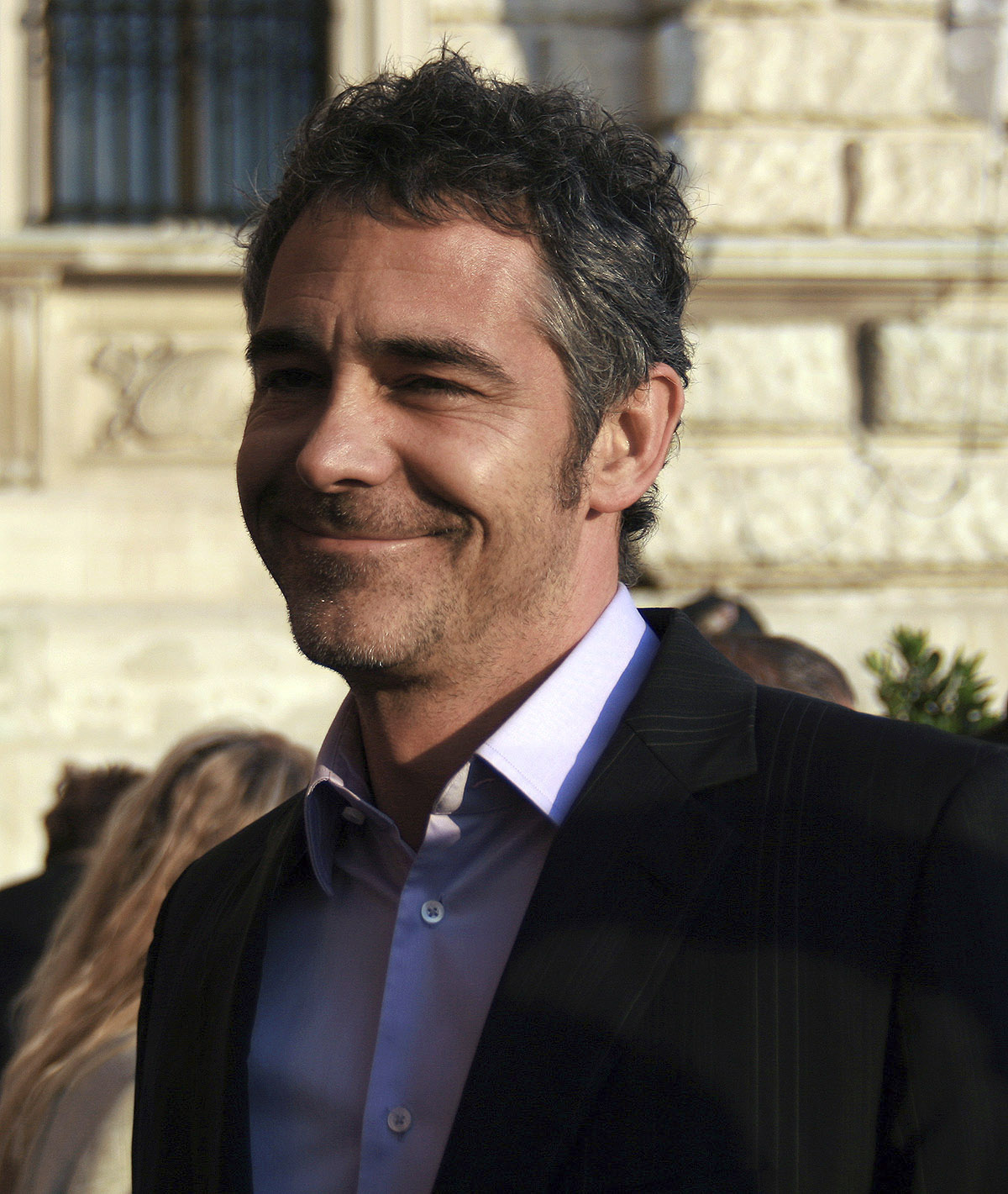 Christian Clerici at the Romy TV awards (Hofburg Imperial Palace in Vienna)